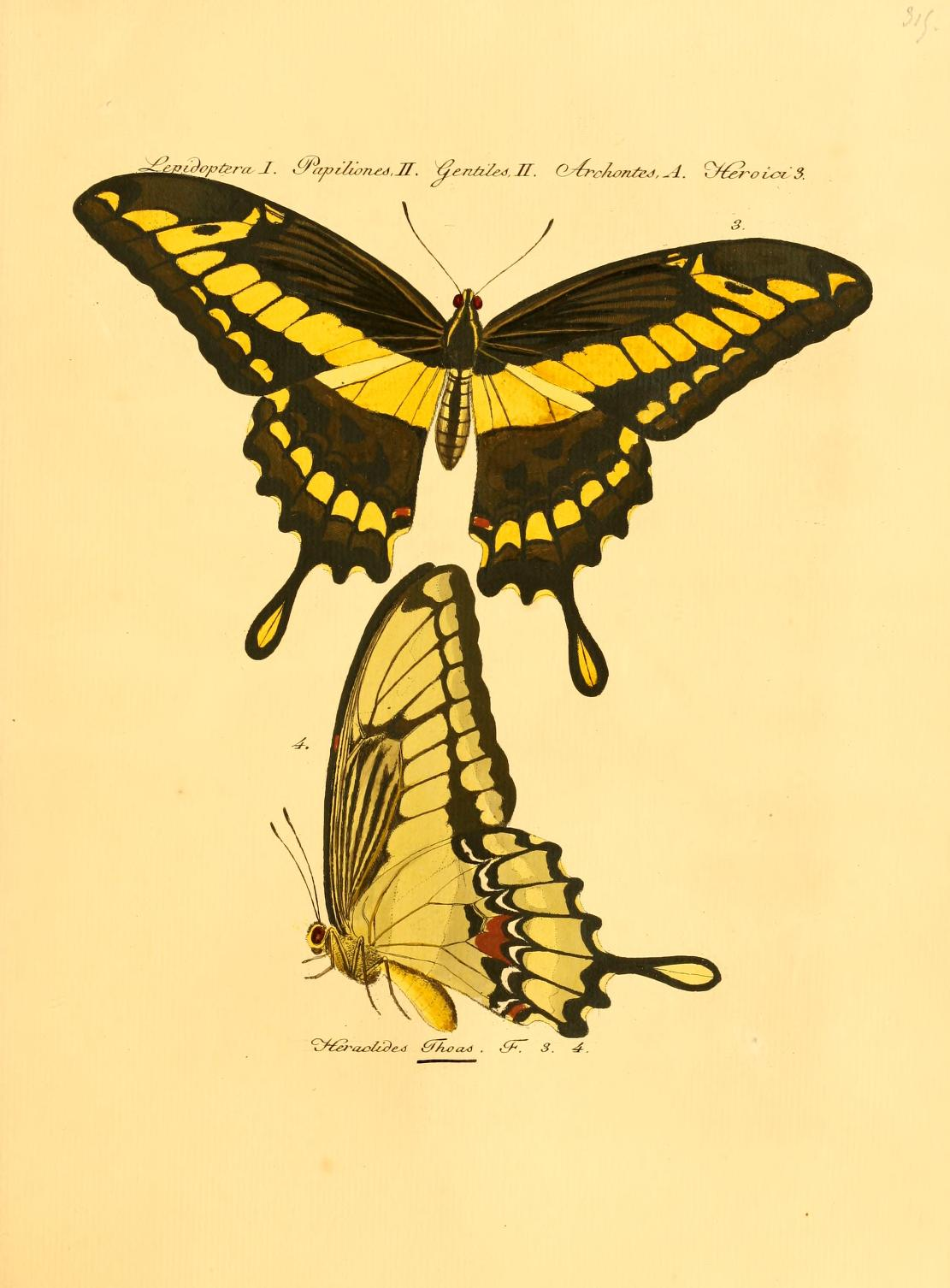 Jacob Hübner, [1821] Sammlung exotischer Schmetterlinge Vol. 2 ([1819] - [1827] Plate 101 Heraclides thoas synonym for Papilio thoas Linnaeus, 1771